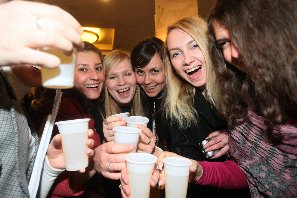 “Ceremony of ladling out mead at Moscow University”. Moscow University students at the traditional ceremony of ladling out mead in the lobby of the university's intellectual center, its Fundamental Library.